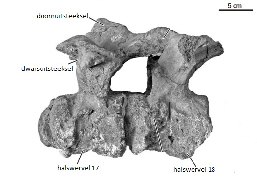 Olorotitan arharensis Godefroit, Bolotsky & Alifanov, 2003 (AEHM 2-845, holotype). Cervical vertebrae 17 and 18. Upper Cretaceous of Kundur, Russia.